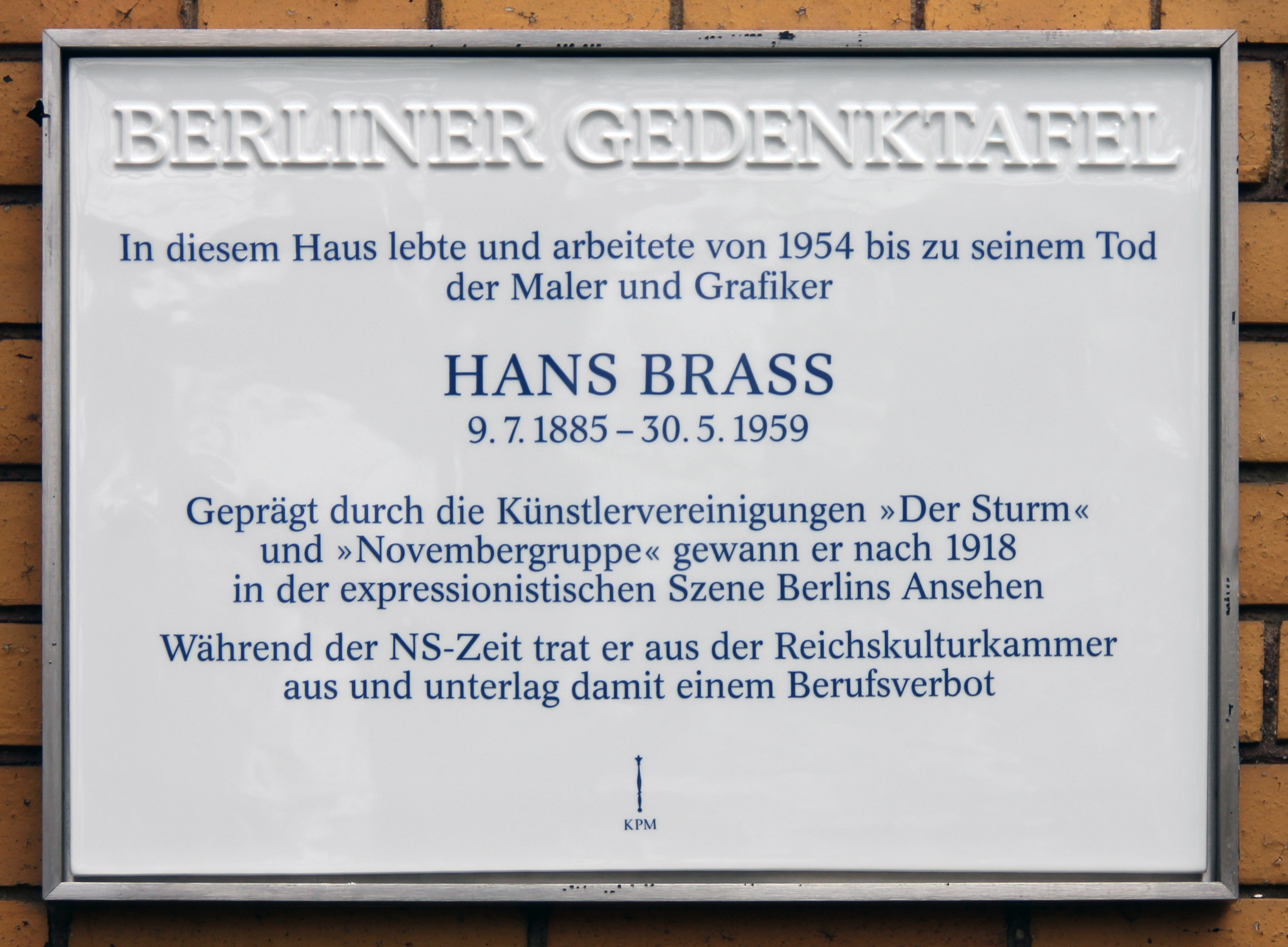 Berlin memorial plaque, Hans Brass, Brebacher Weg 15, Berlin-Biesdorf, Germany